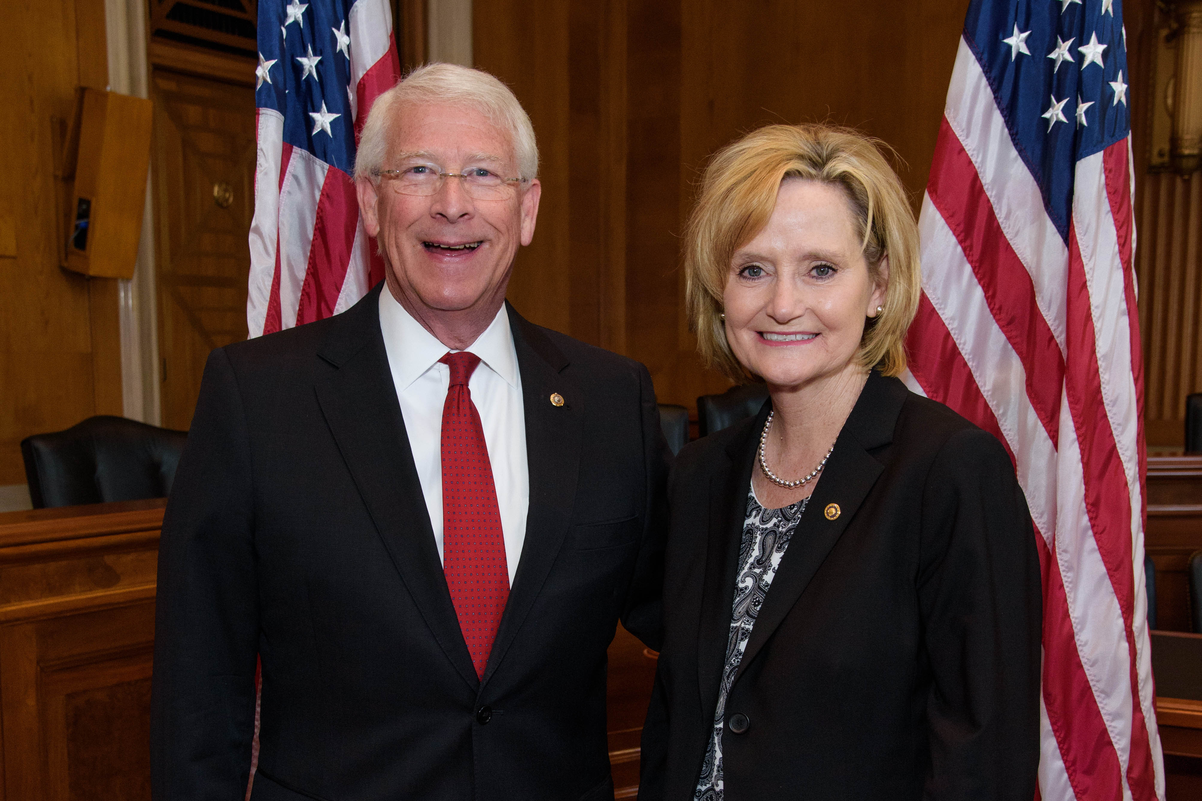 U.S. Senator Roger F. Wicker meets with U.S. Senator Cindy Hyde-Smith of Mississippi in the Dirksen Senate Office building.